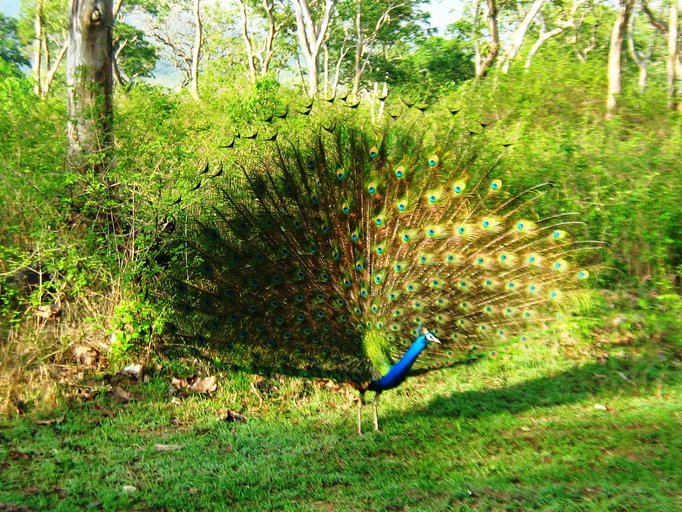 A peacock at the Mudumalai forest, Tamil Nadu, India